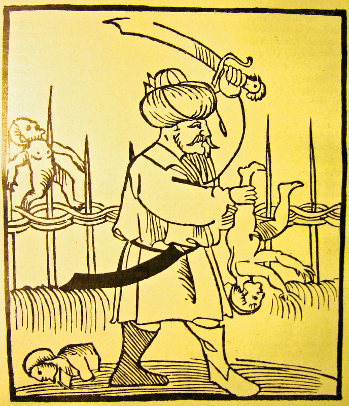 Digitalized Postcard of woodprint-replica. The theme follows motives from German (and Austrian) anti-Ottoman pamphlets (see Bericht des kaiserlichen Kriegssekretärs Peter Stern von Labach; Flugblatt von Erhard Schoen zu Hans Sachs' "Der armen Leut Klag", 1529/30) Stephan Theilig: The Change of Imaging the Ottomans in the Context of the Turkish Wars from the 16th to 18th Century. In: Cahiers de la Méditerranée, 83 2011, online since 15th June 2012., Paragraf 12, fig. 1.